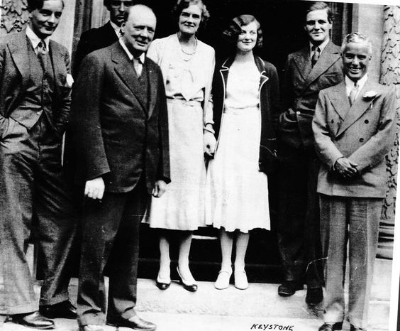 Churchill with Charlie Chaplin and Tom Mitford at Chartwell